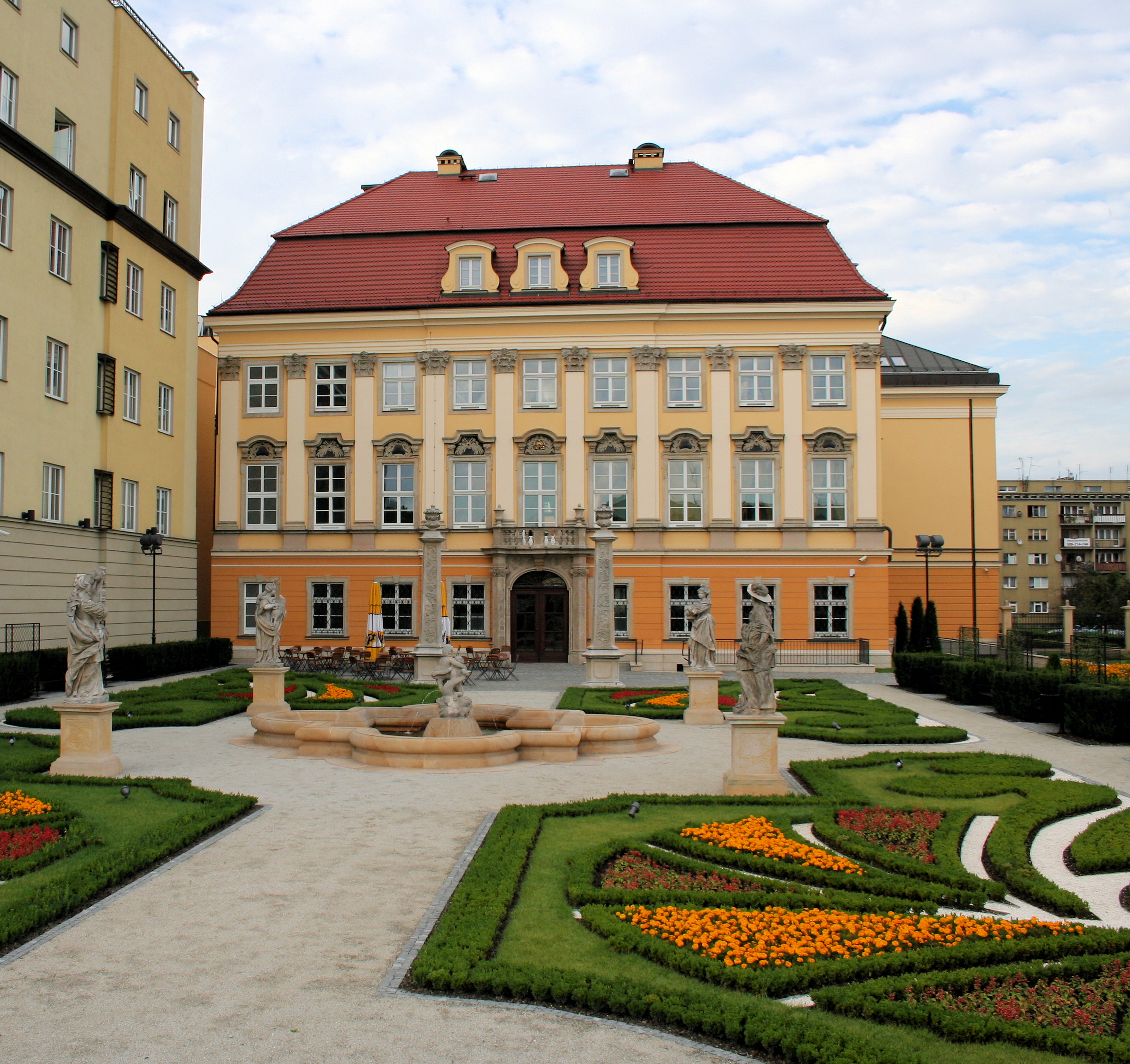 Prussian royal palace in Wrocław, Poland